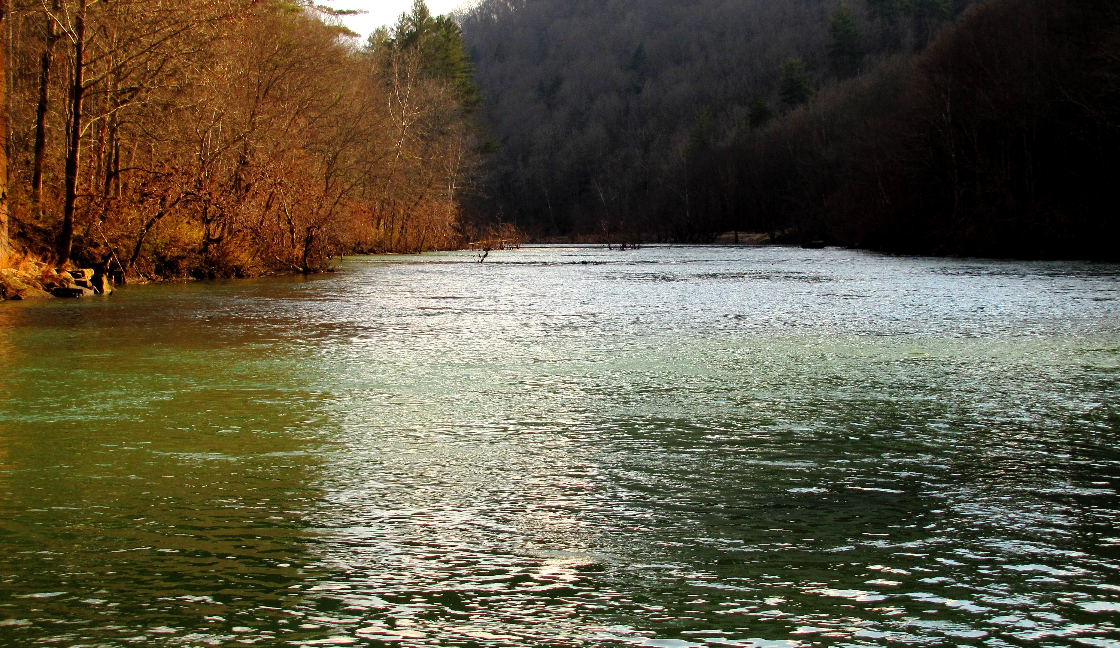 The Big South Fork of the Cumberland River, looking south from the riverwalk at Leatherwood Ford, at the Big South Fork National River and Recreation Area in Scott County, Tennessee, USA.